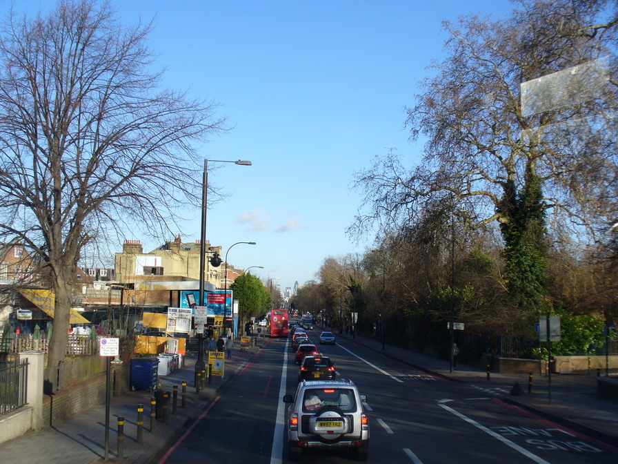 Brixton - Brixton Hill & Beechdale Road - near Blenheim Gardens